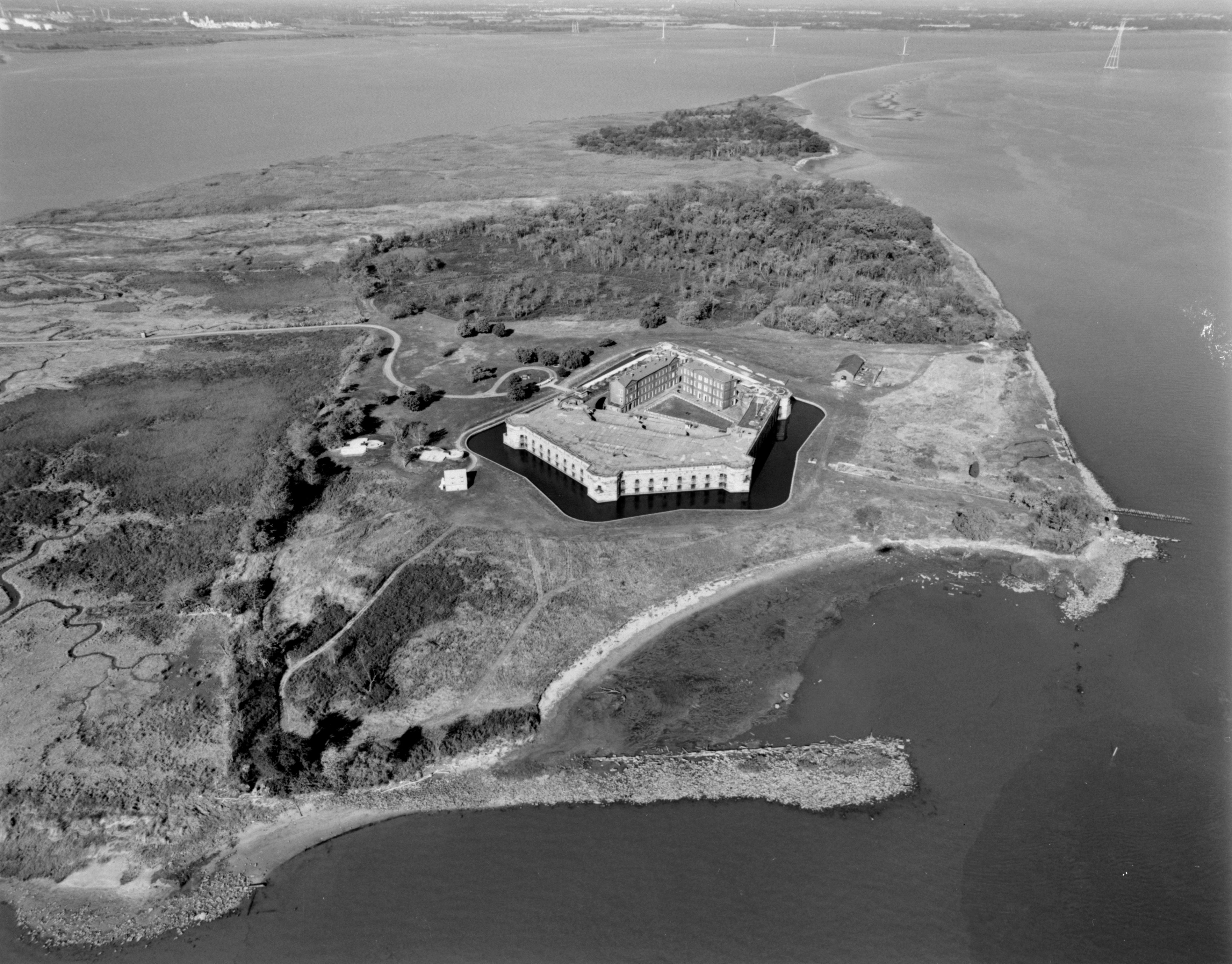 NORTHWEST OBLIQUE AERIAL VIEW OF FORT DELAWARE AND PEA PATCH ISLAND. REMAINS OF SEA WALL VISIBLE IN FOREGROUND AND RIGHT OF IMAGE. HAER DEL,2-DELAC.V,1A-1 Photo taken in October, 1998.